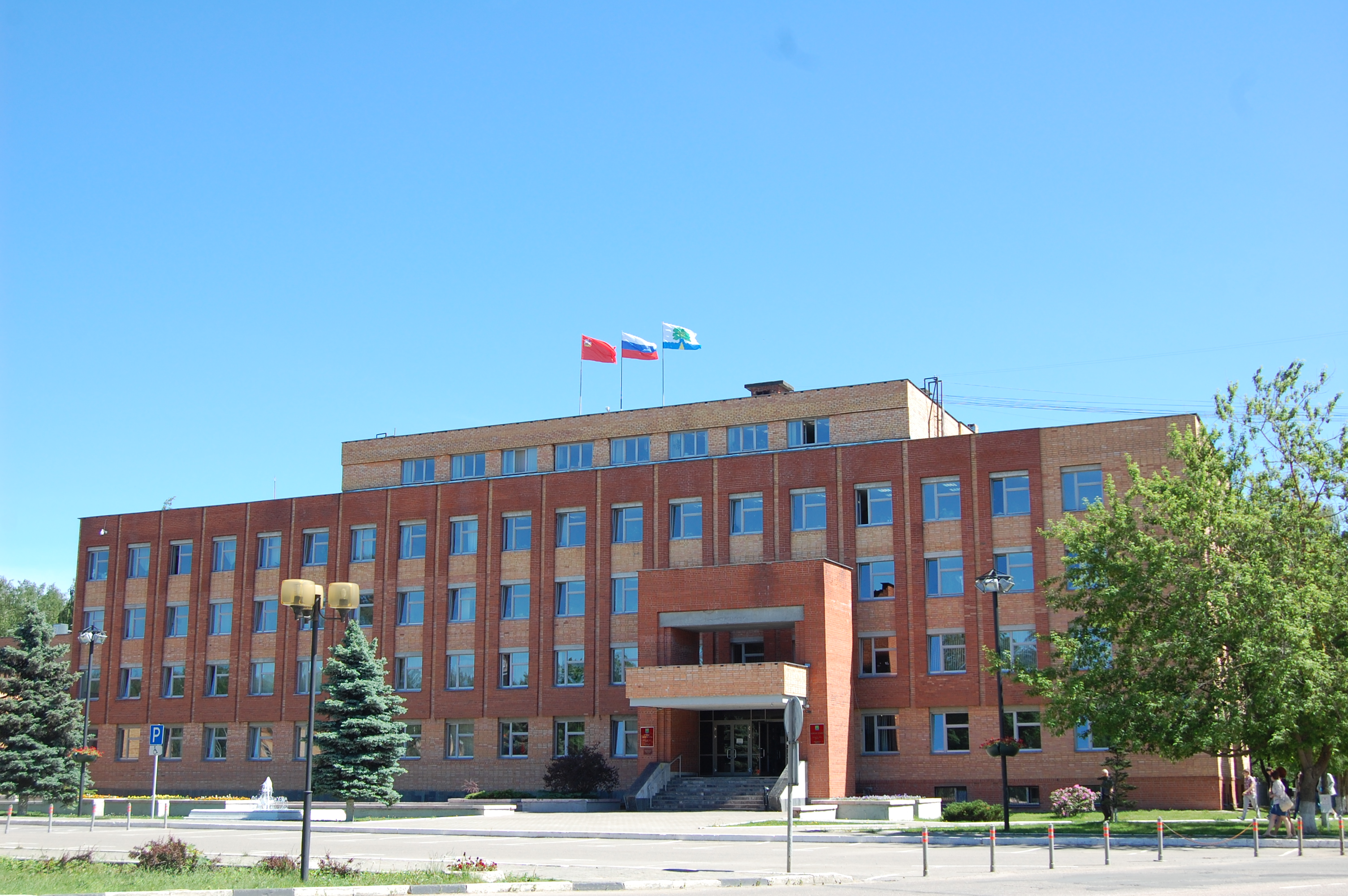 City Hall in Dubna, Moscow oblast